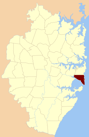 original location of the parish within Cumberland County, New South Wales (Sydney area)